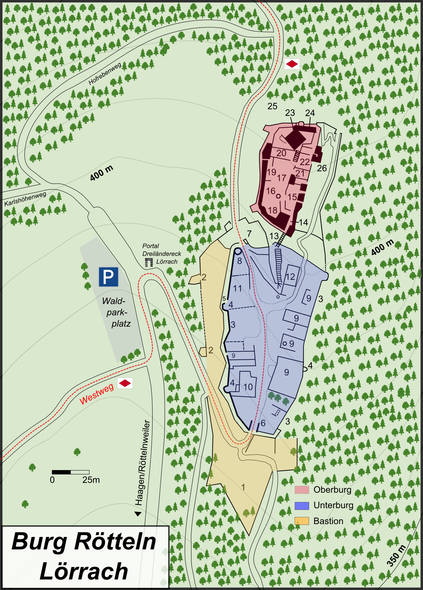 Ground view and surroundings of Rötteln Castle, Lörrach, Germany